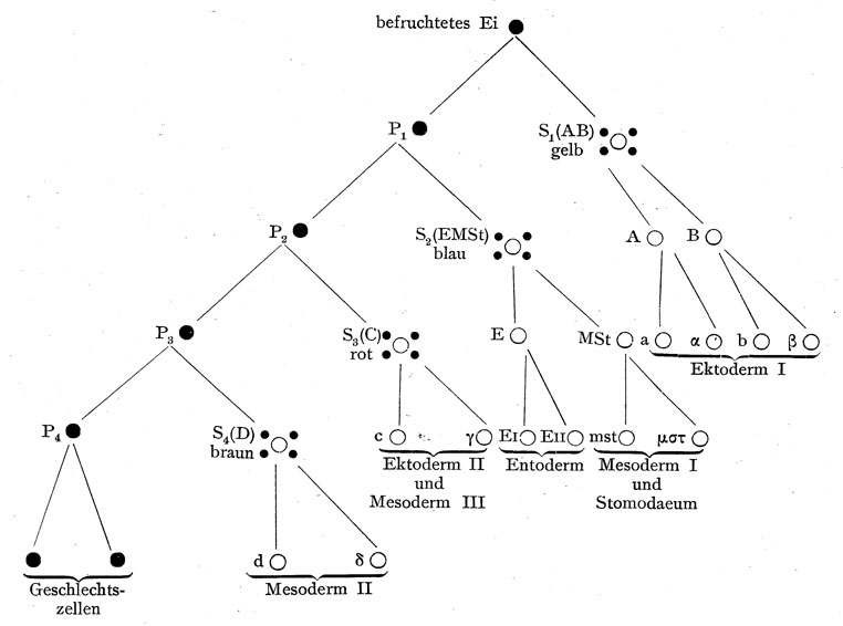 Pedigree of the first cell divisions in an Ascaris embryo, highlighting Chromatin Diminution. Black circles: cells with full karyotype. White circles with black dots around: cells in which chromatin diminution takes place. White circles: cells with reduced karyotype